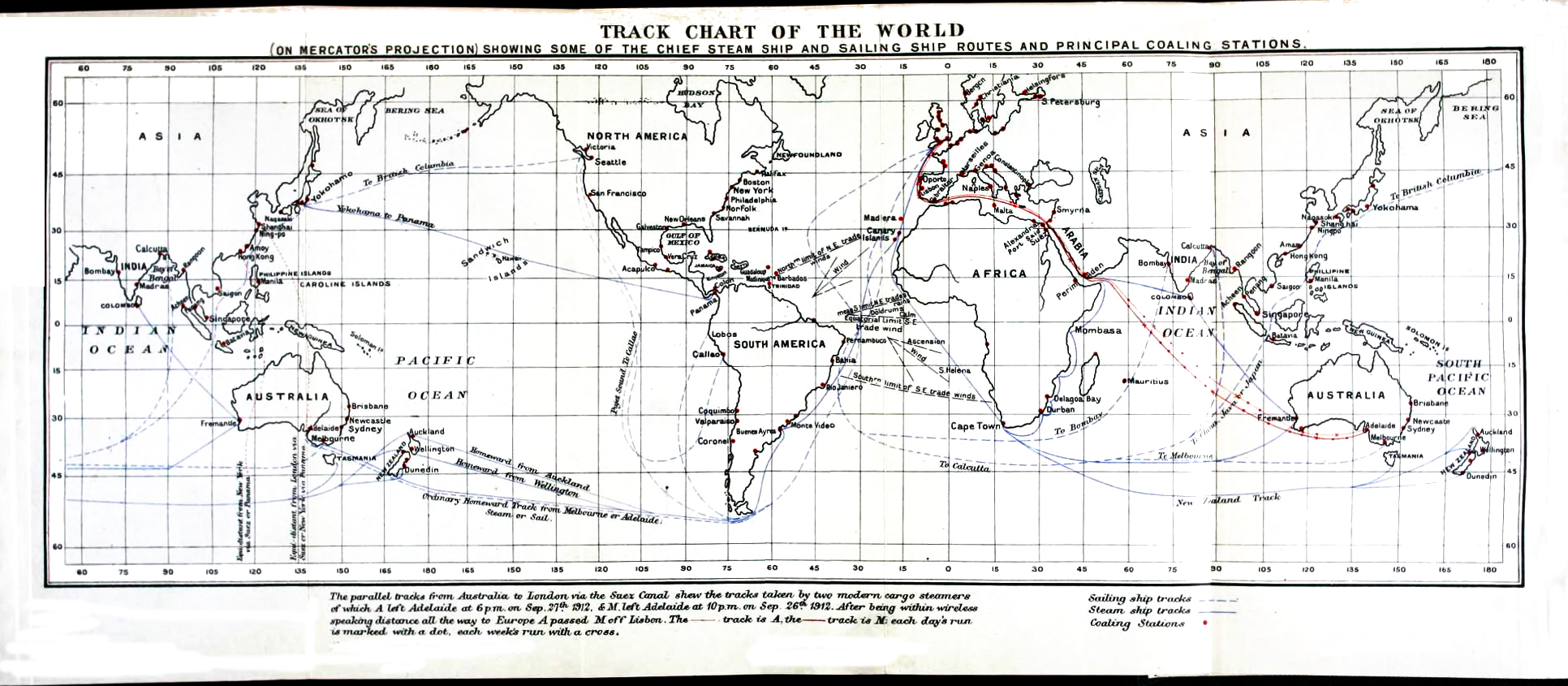 Steam and sailing routes with coaling stations, 1914